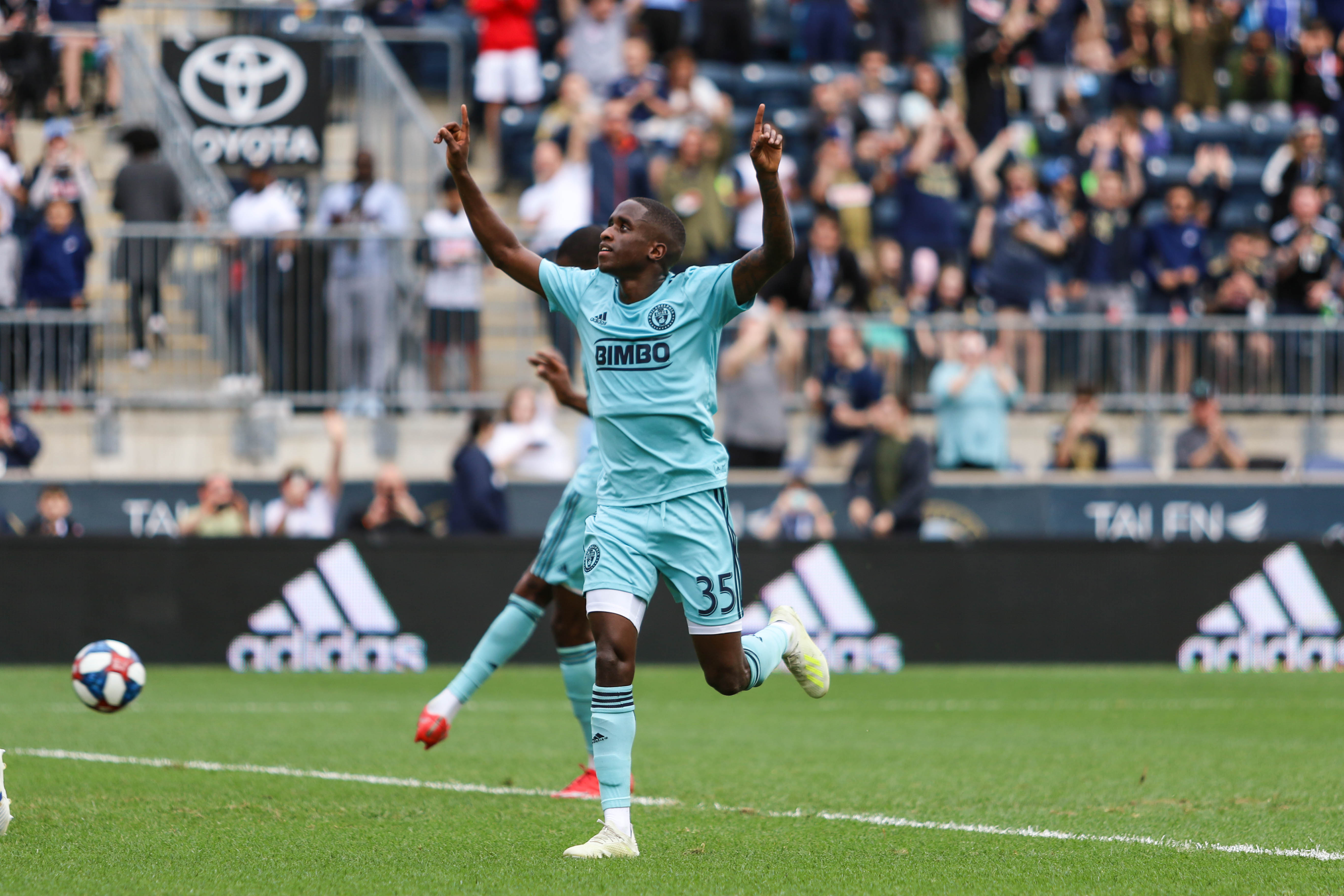 Jamiro Monteiro playing at Subaru Park versus Montreal Impact.